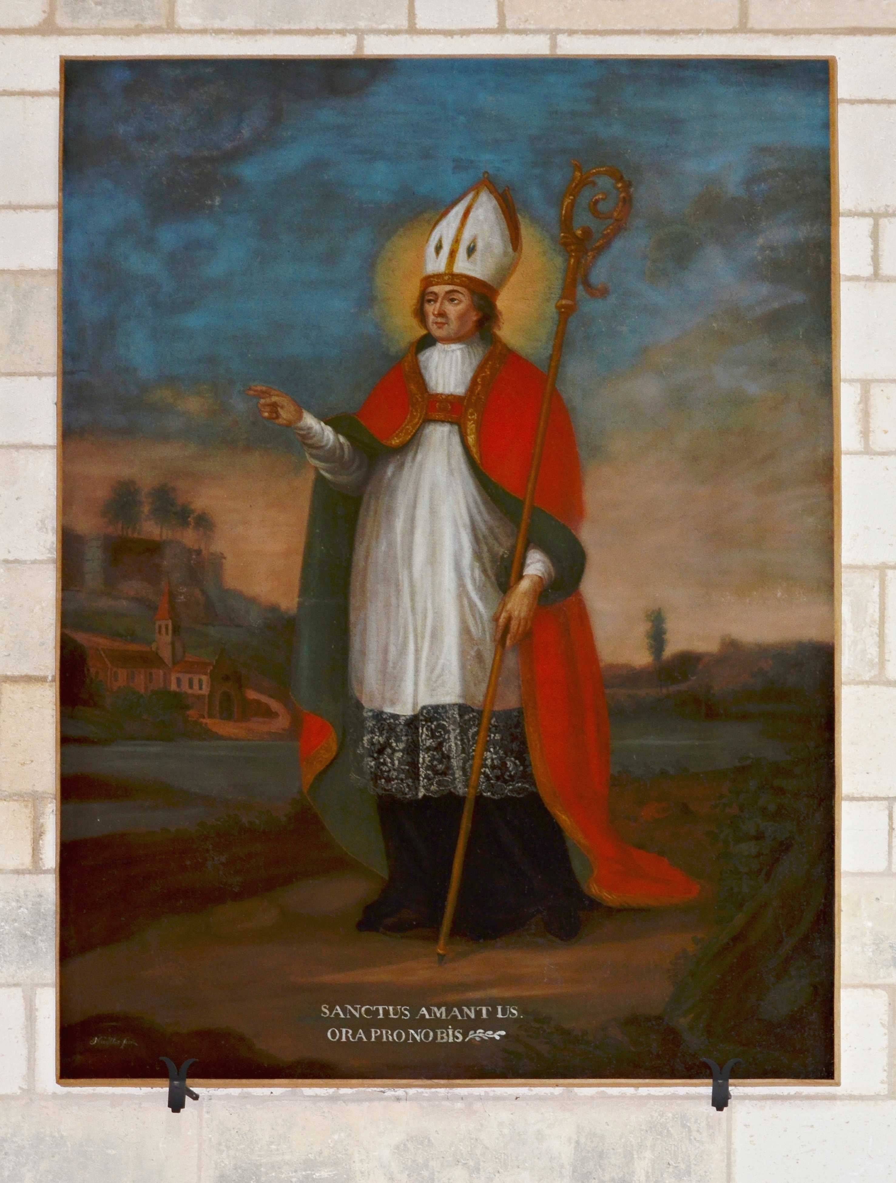 Saint Amant, patron saint of the church, by François Nicollet (1762-1833), church of Saint-Amant-de-Boixe, Charente, France.